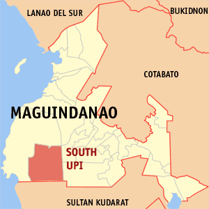 Map of the Maguindanao showing the location of South Upi